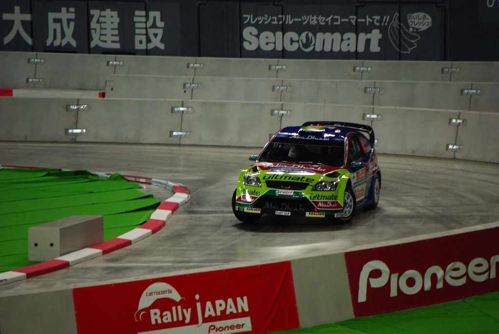 Jari-Matti Latvala driving his Ford Focus RS WRC 08 at a Sapporo Dome super special stage of the 2008 Rally Japan.